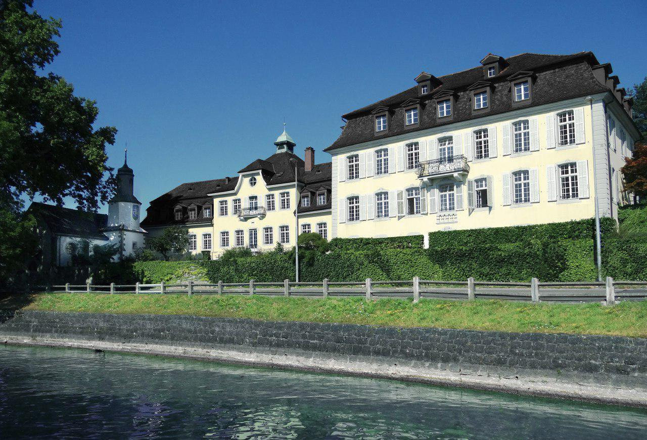 Salesianum located in the Canton of Zug photographed in the year of 2018